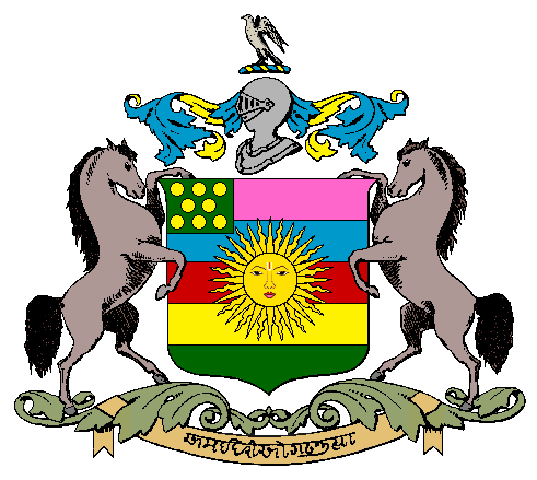 Idar State Coat of ArmsArms: Barry of five Tenné, Gules, Azure, Vert and Or, a sun in splendour Argent and Or, and a canton Or. Crest: On a helmet affronté lambrequined (Gules and Argent?) a falcon rising proper. Supporters: Two horses proper. Badge: Two swords in saltire, placed beneath the shield. Motto: The motto written in devanagiri in golden lettering on a blue ribbon.